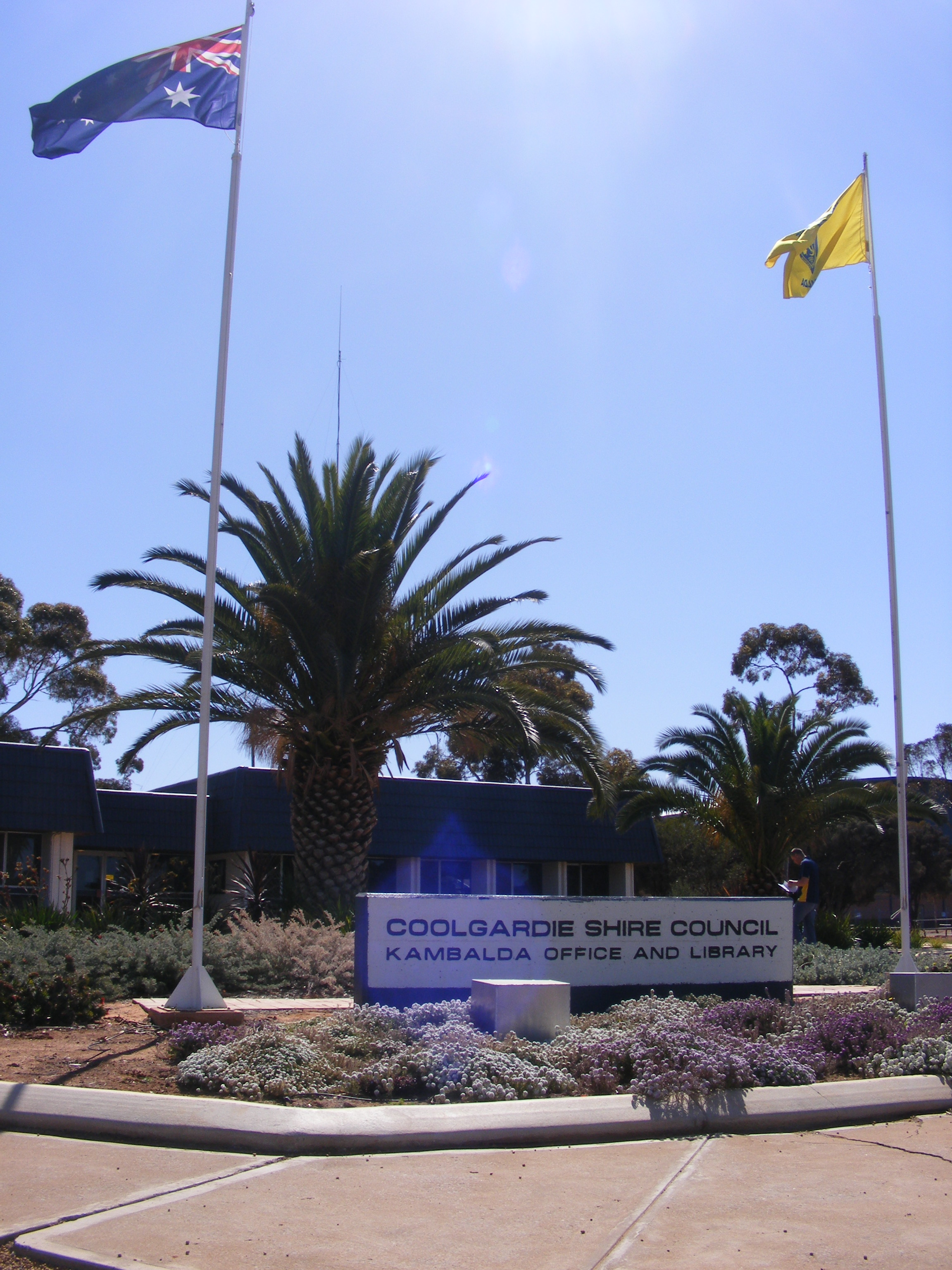 Photo of the front office of the Shire of Coolgardie, located in the town of Kambalda.